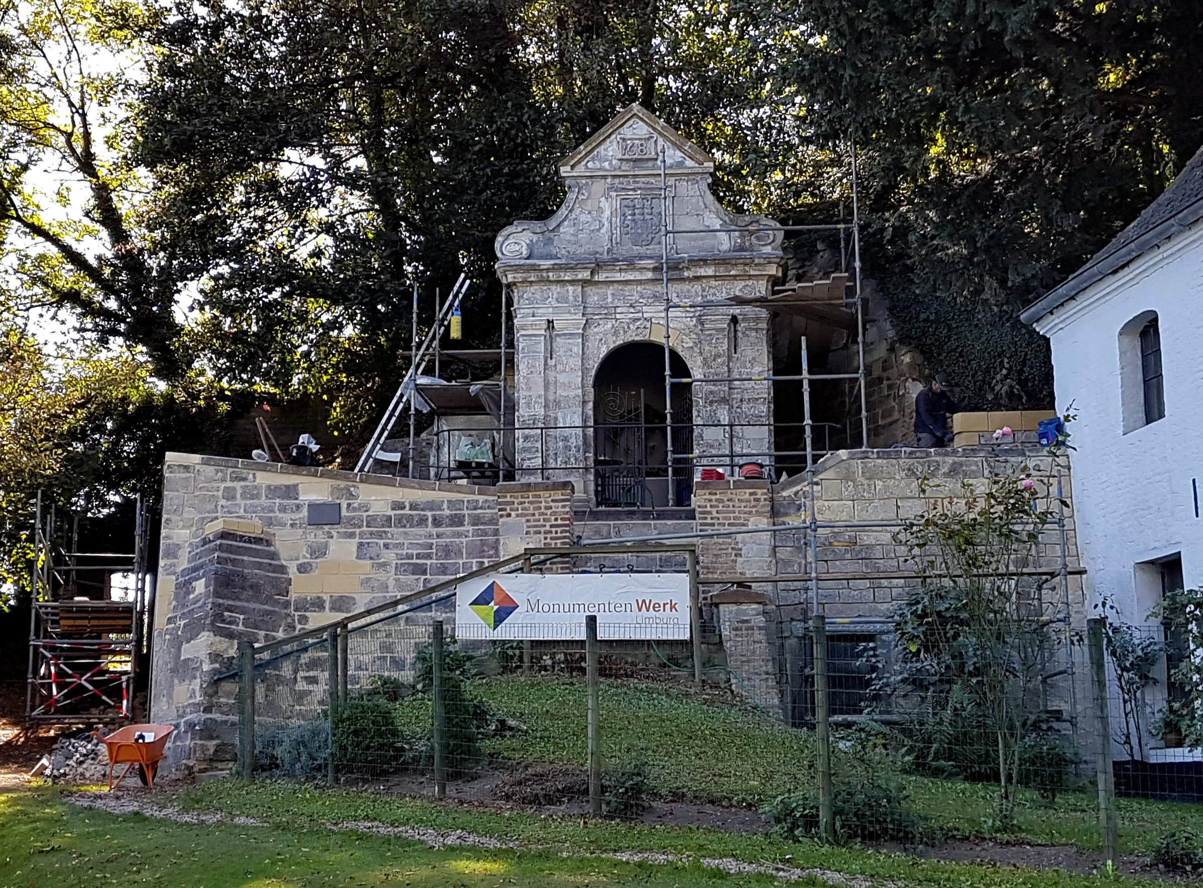 View of Slavante, the former site of a monastery on the east slope of Mount Saint Peter in Maastricht, Netherlands. In the centre the baroque chapel of Saint Anthony under restoration. On the right a section of the 17th-century Franciscan monastery of Observants.